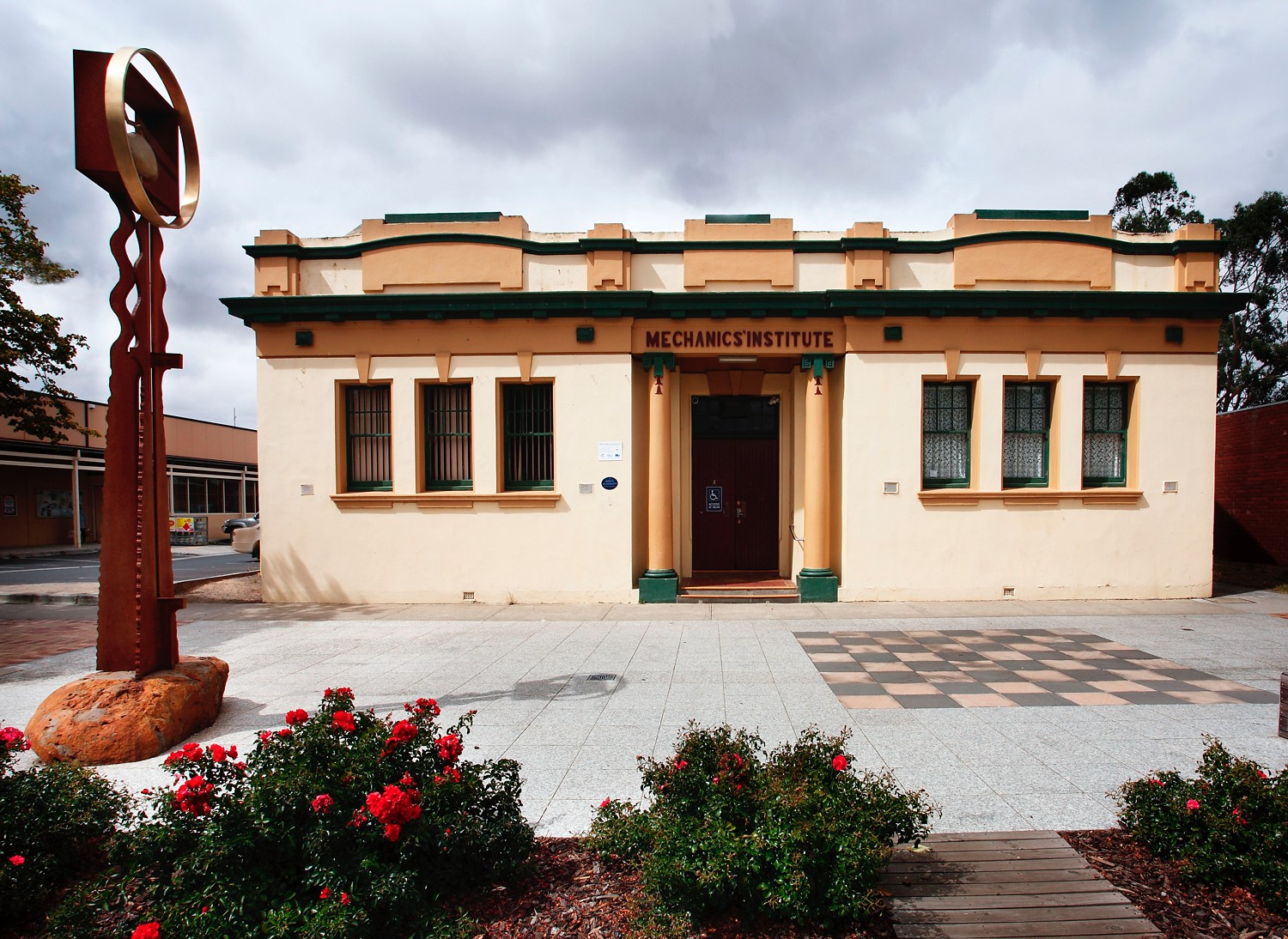 Ballan Mechanic's Institute with Peter Blizzard Sculpture on left